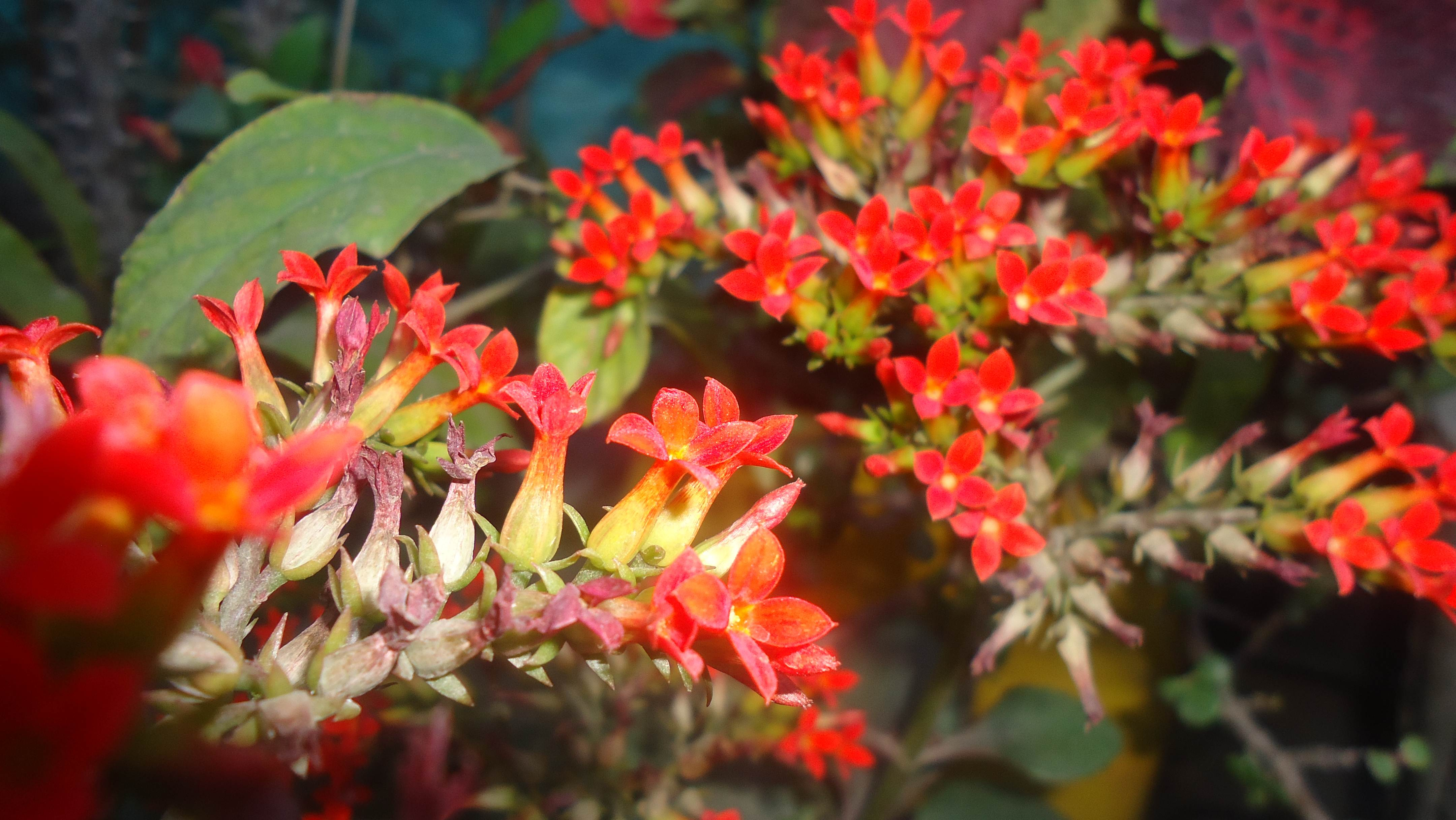 Red colored beautiful flowers HD photo.The beauty of red flowers gives the best feeling.